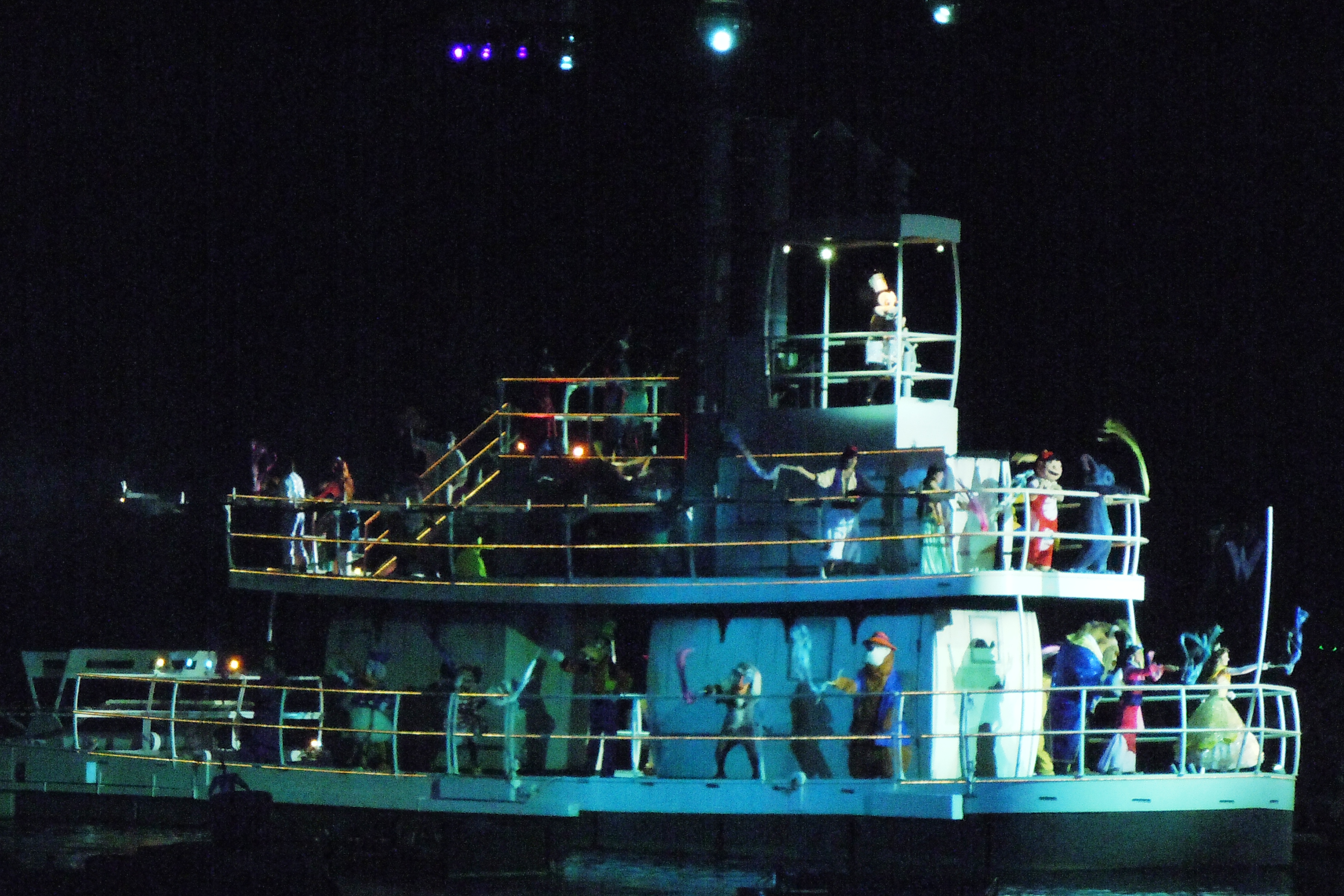 Steamboat Willie captaining the ship during Fantasmic! in the Disney's Hollywood Studios version.